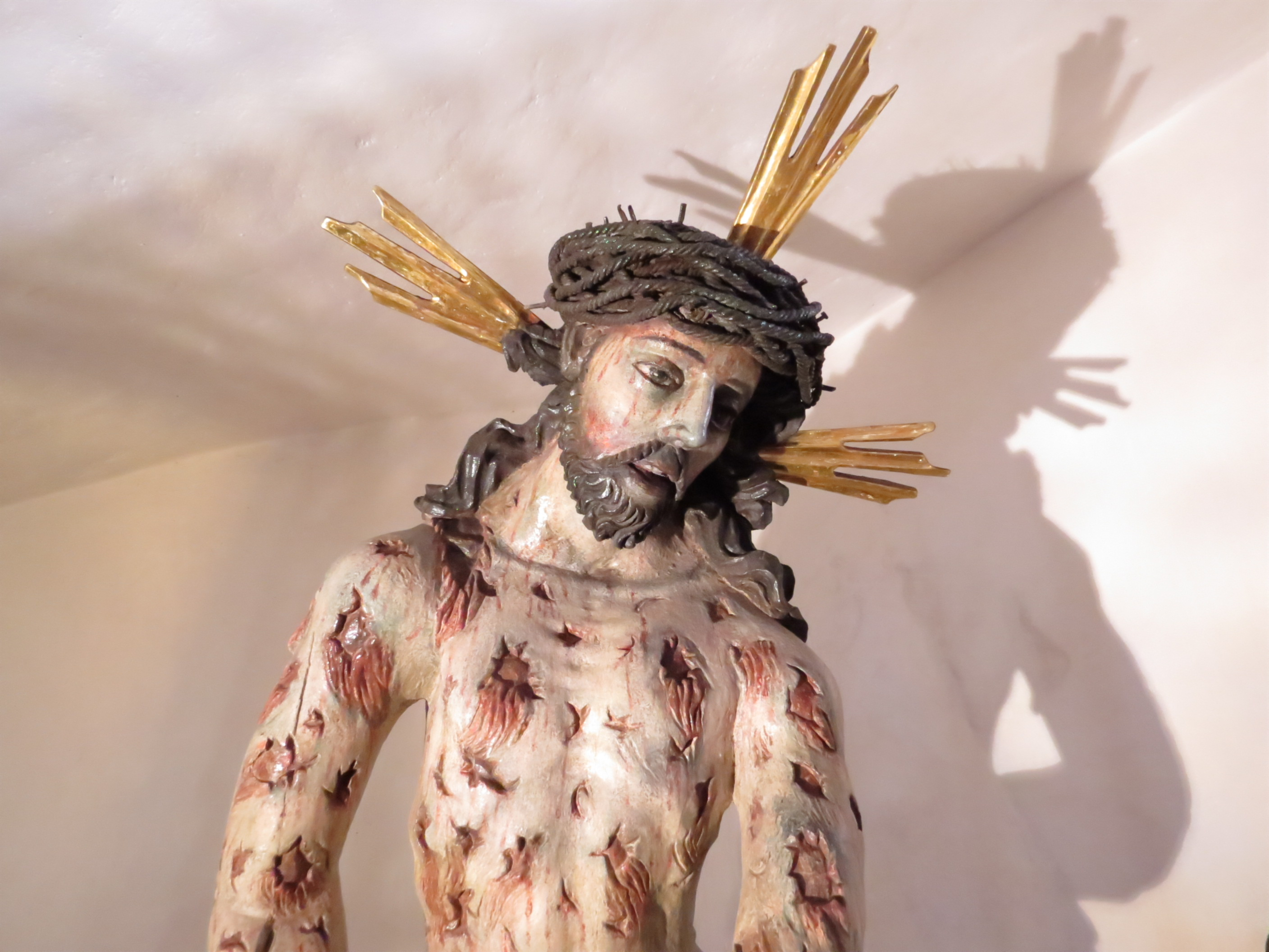 Sculpture of the flagellation of Jesus Christ at Saint Hippolytus Church in Zell am See, Austria